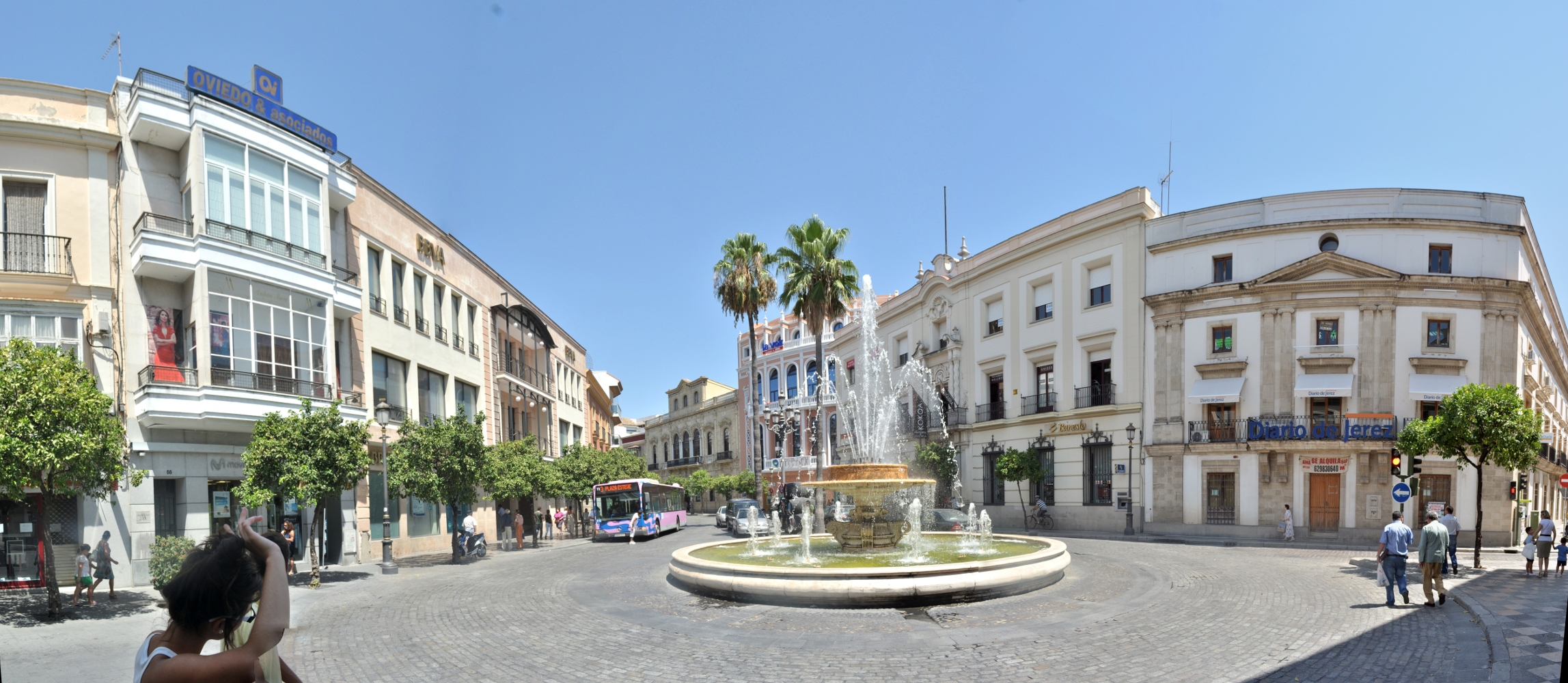 Casino Roundabout, panoramic, Jerez